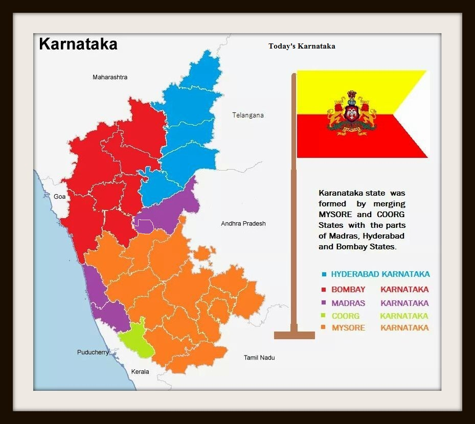 Karnataka region in pre-independent India which belonged to five states of British India